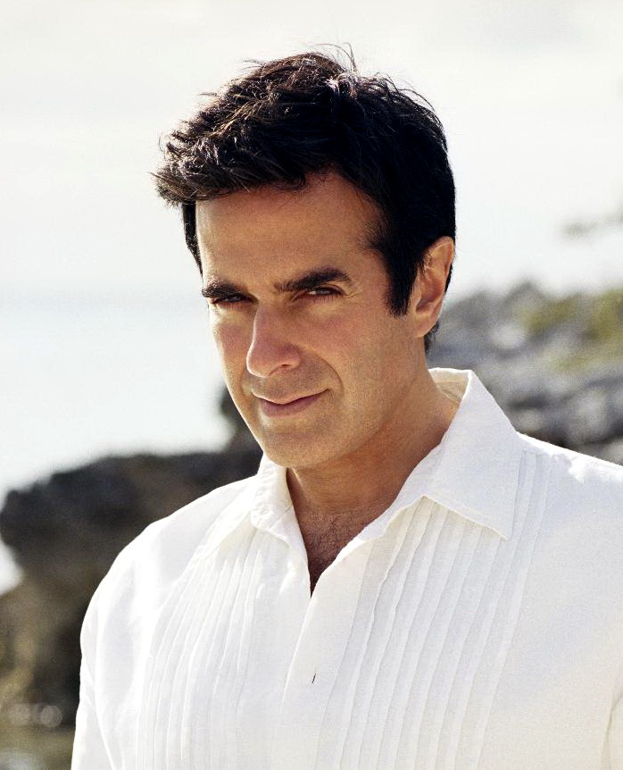 Photo of illusionist David Copperfield, taken in 2014, on Musha Cay and the Islands of Copperfield Bay. Photo taken by Homer Liwag, with explicit permission by Mr. Liwag for this picture to be published on Wikipedia as public domain.